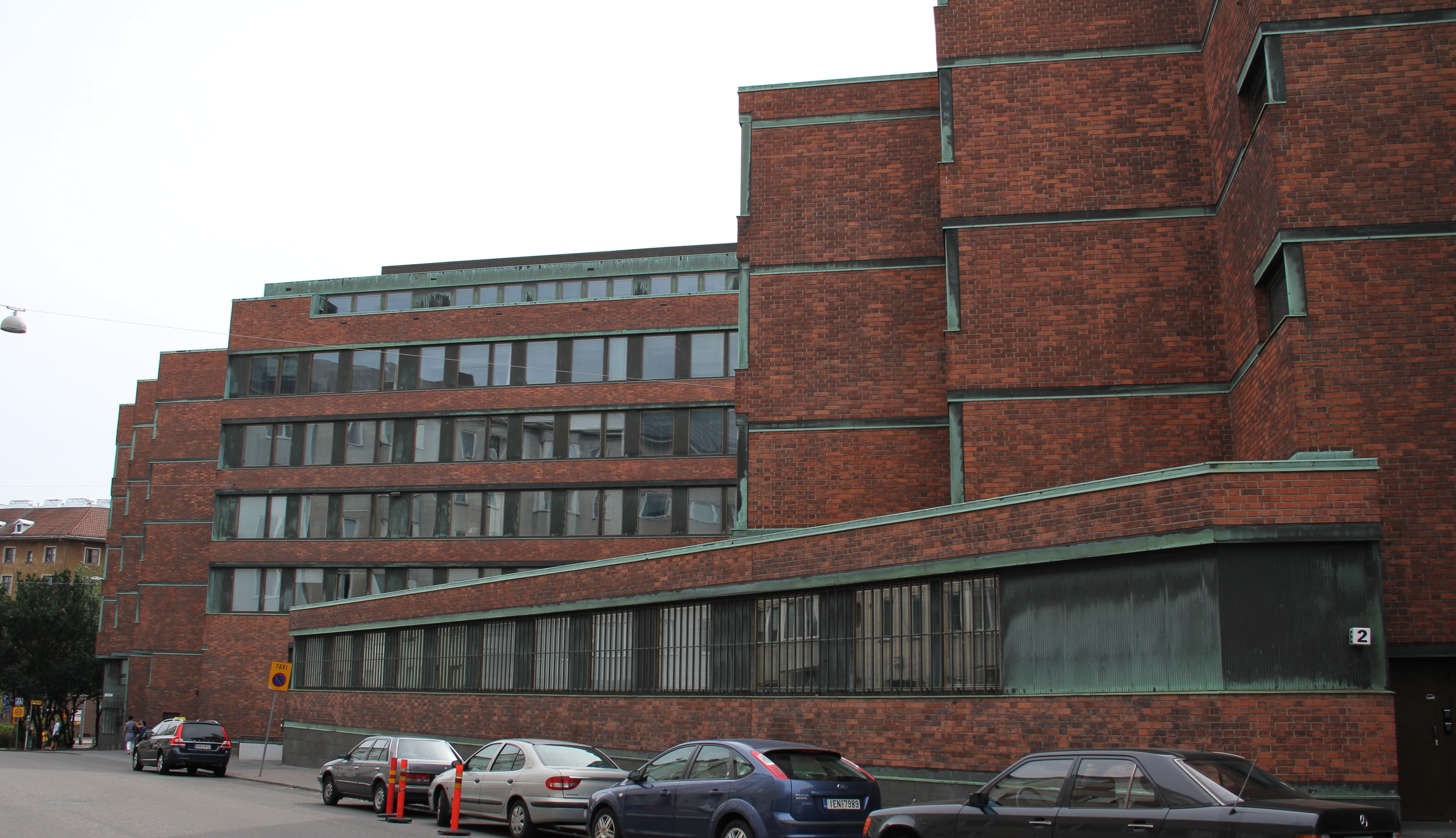 Kansaneläkelaitos headquarters, Taka-Töölö, Helsinki, Finland. Designed by Alvar Aalto, completed in 1956. - Facade towards Messeniuksenkatu. Photo taken facing southeast.